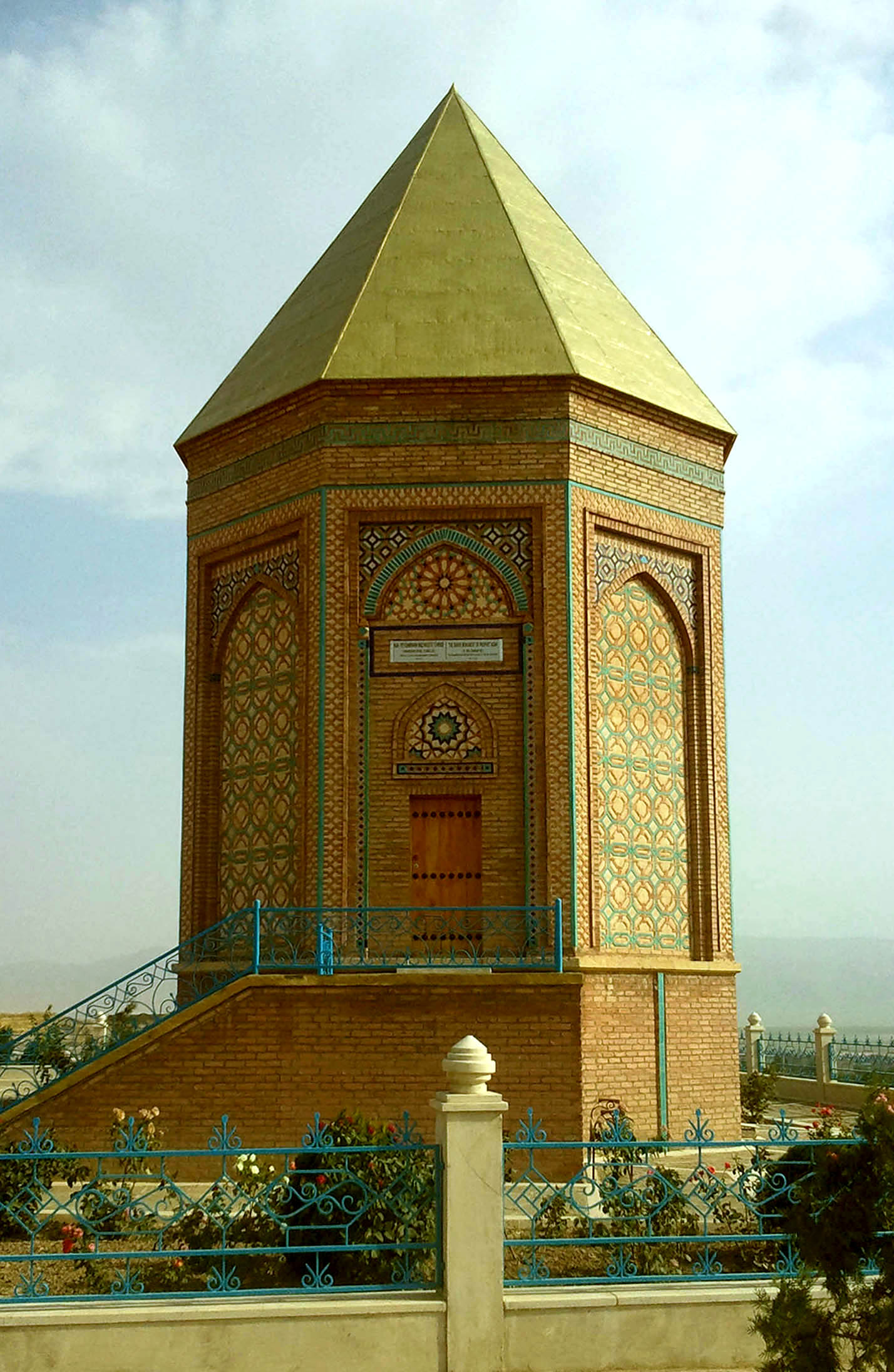 Noah tomb in Nakhchivan